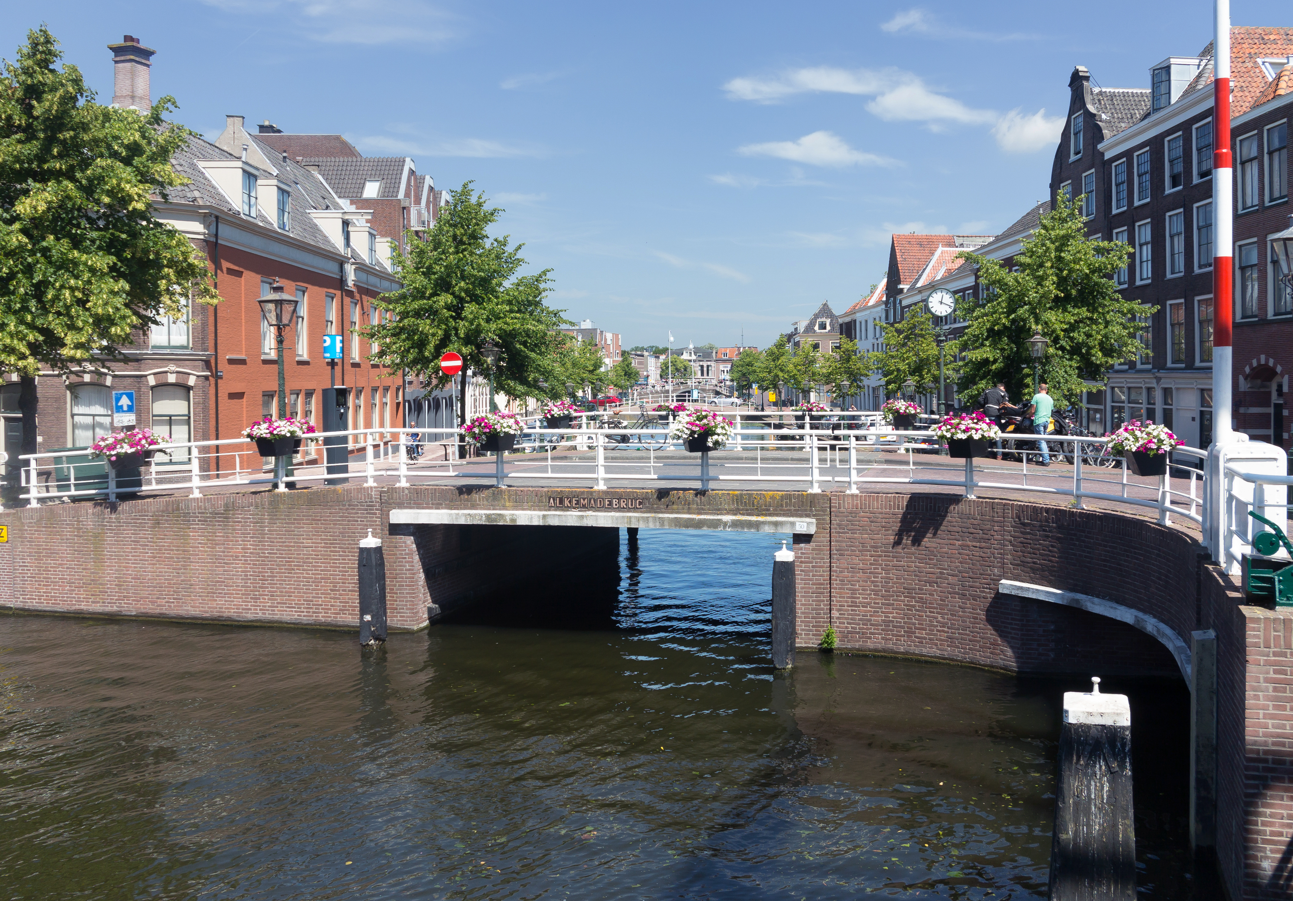 Leiden, drawing bridge (de Alkemadebrug) across the Oude Singel